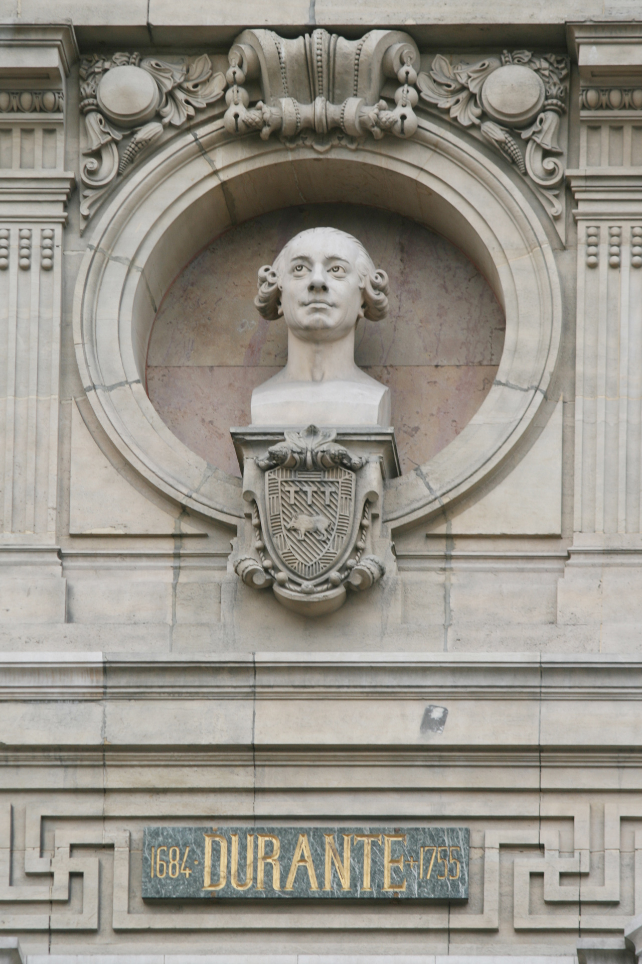 Statue of Francesco Durante on the opera Garnier.